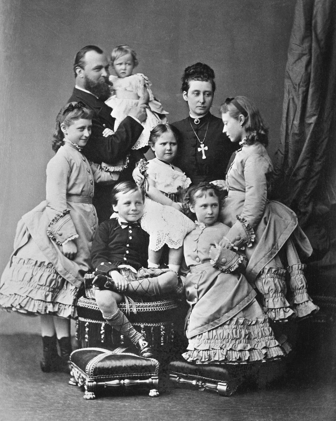 The Hessian family in May 1875: (clockwise from far left): Ella, Grand Duke Ludwig holding Marie, Alice, Victoria, Irene, Ernie and Alix in the center.